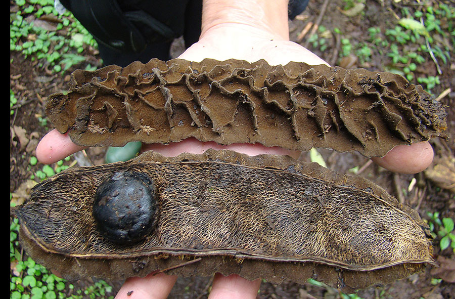 Photo from Juan Castro Blanco park, Costa Rica. In context at